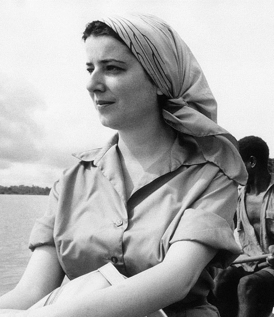 Italian journalist and writer Grazia Livi looking at the horizon on a rowing boat. The journalist was sent in Lambarn by the weekly magazine Epoca to interview German doctor and Nobel Peace Prize laureate Albert Schweitzer. Lambarn, 1961